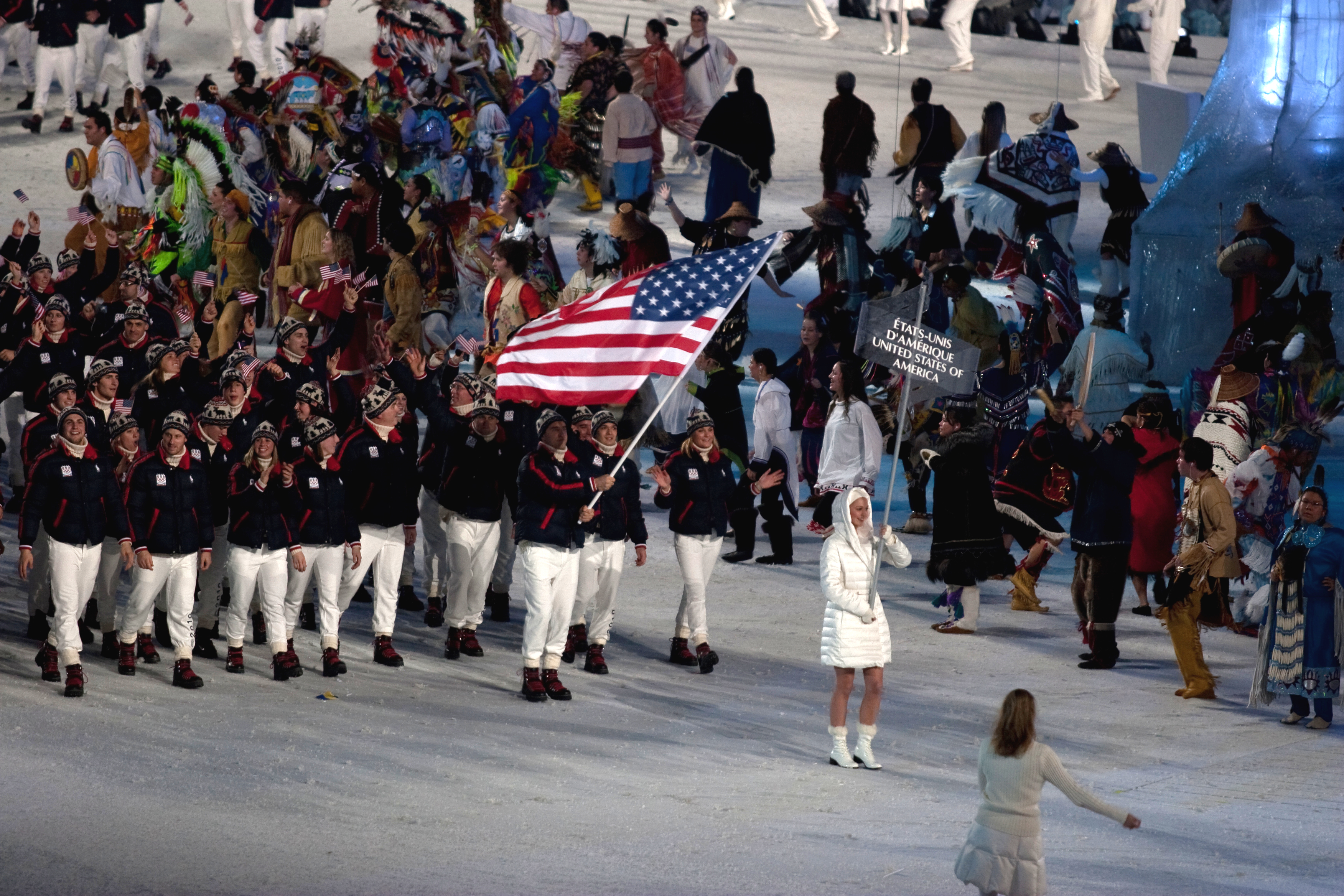 The athletes from the United States entering the stadium at the opening ceremonies of the 2010 Winter Olympics, with Mark Grimmette carrying the national flag.